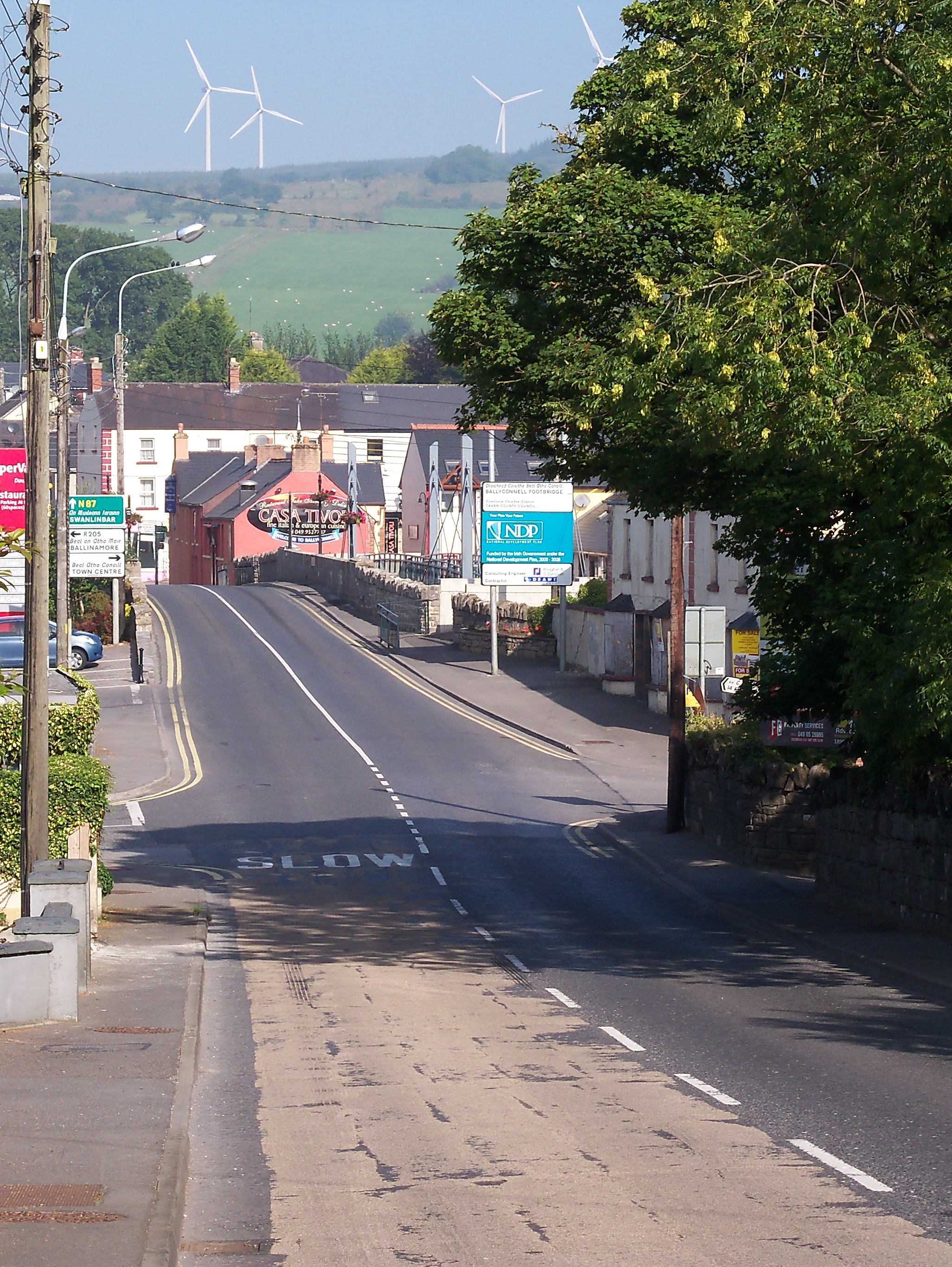 Ballyconnell, County Cavan. View of the bridge (down Bridgestreet (N87)).